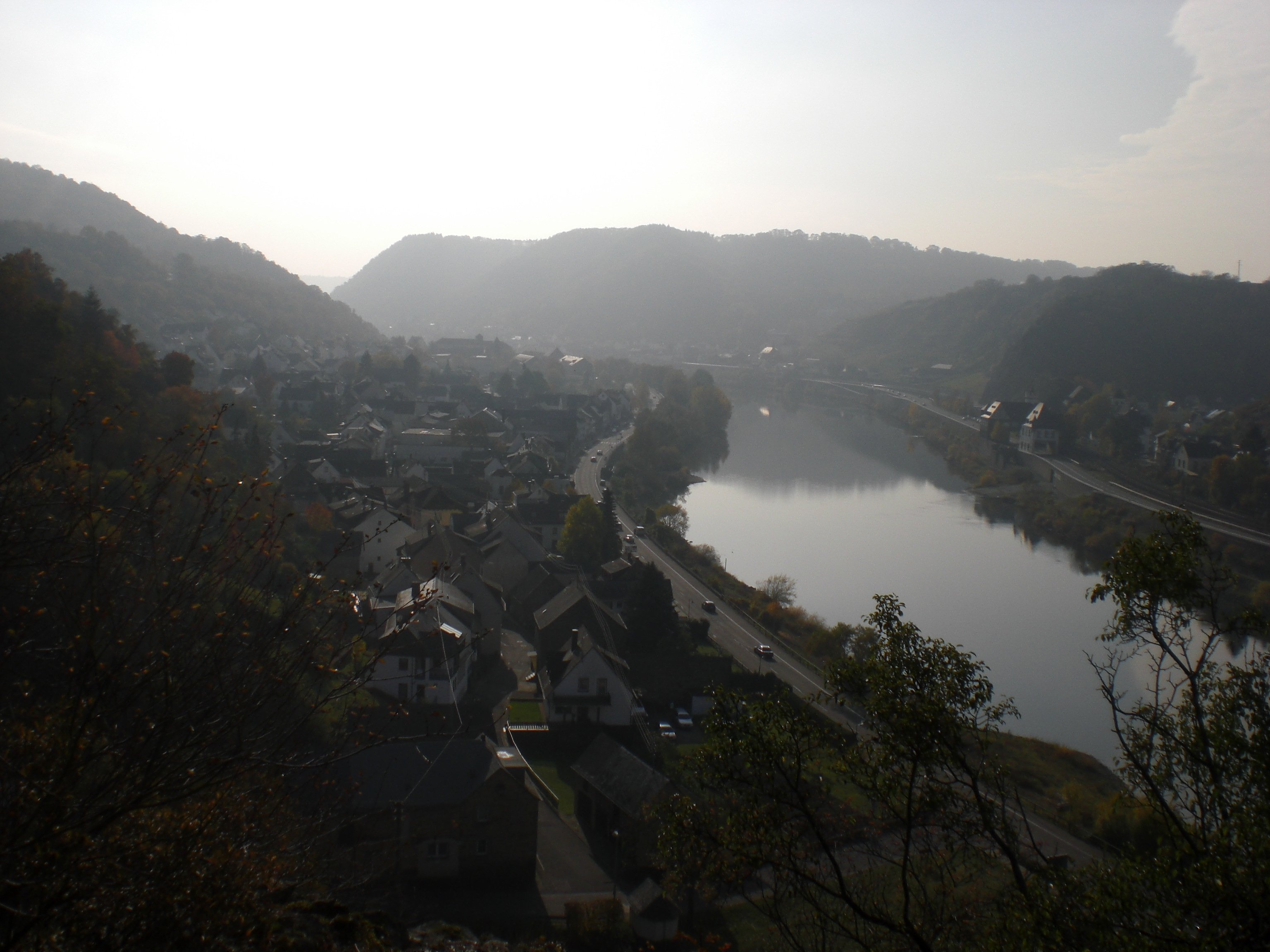 Niederfell (Mosel)